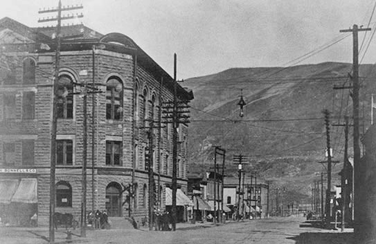 View north up South Mill Street in Aspen, CO, USA in early 1900s. Wheeler Opera House is at left.